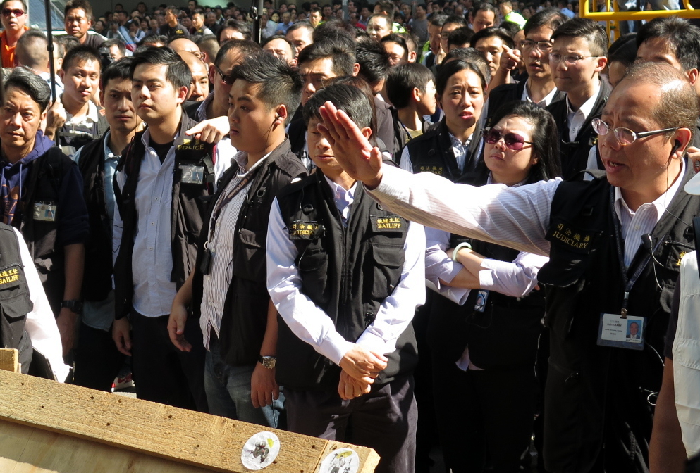 Bailiff in Argyle Street